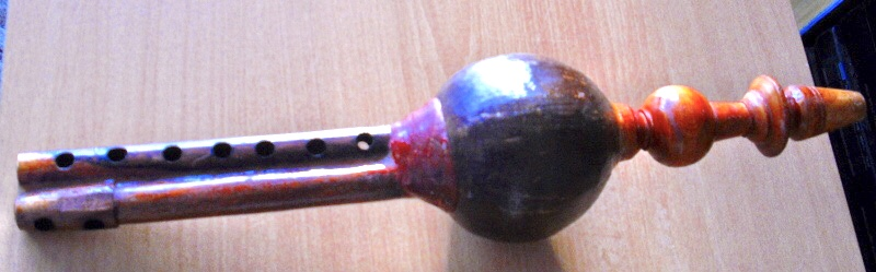 Indian Been instrument.